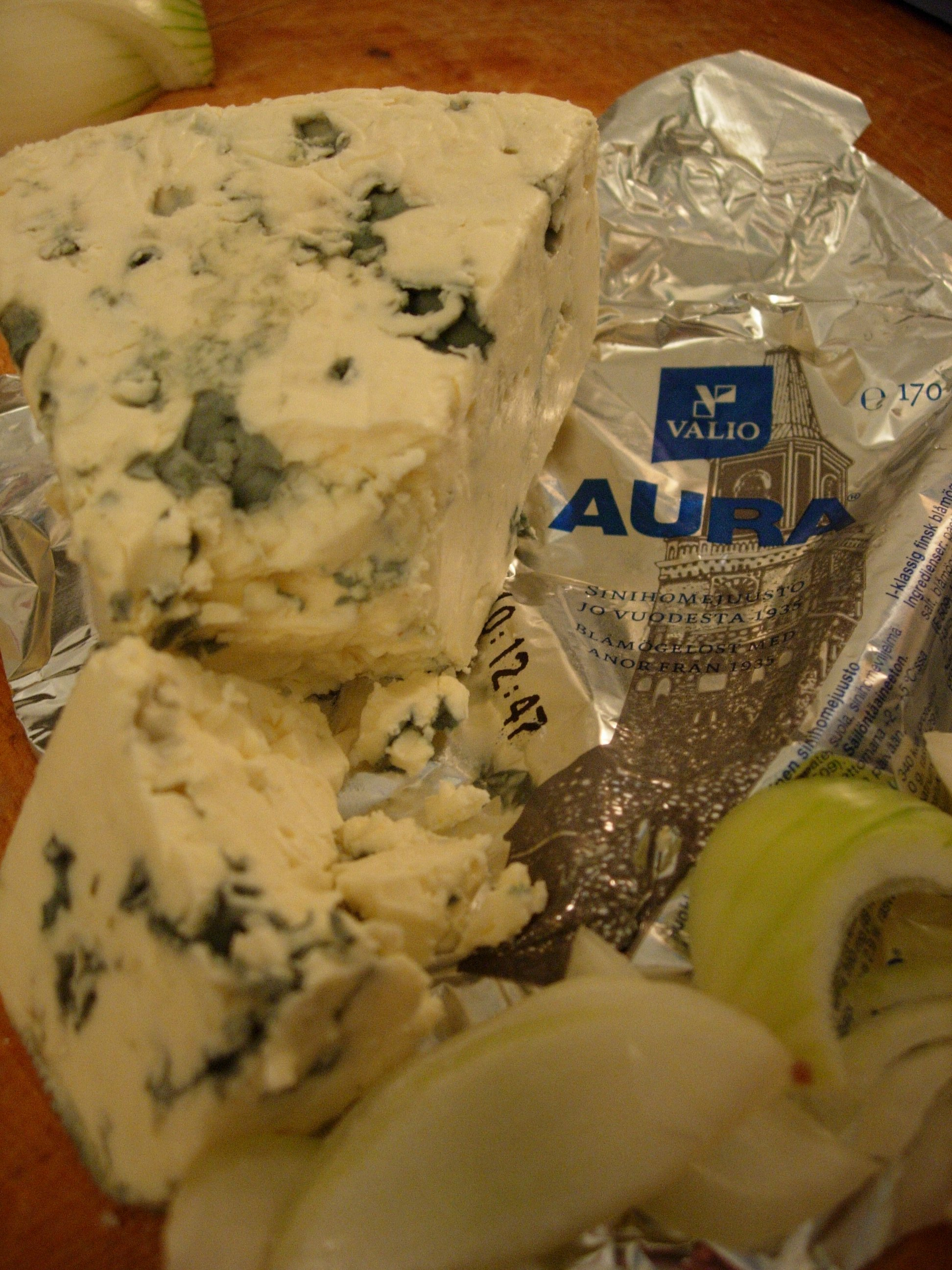 Valio's blue cheese brand, named after the river running through the city of Turku.